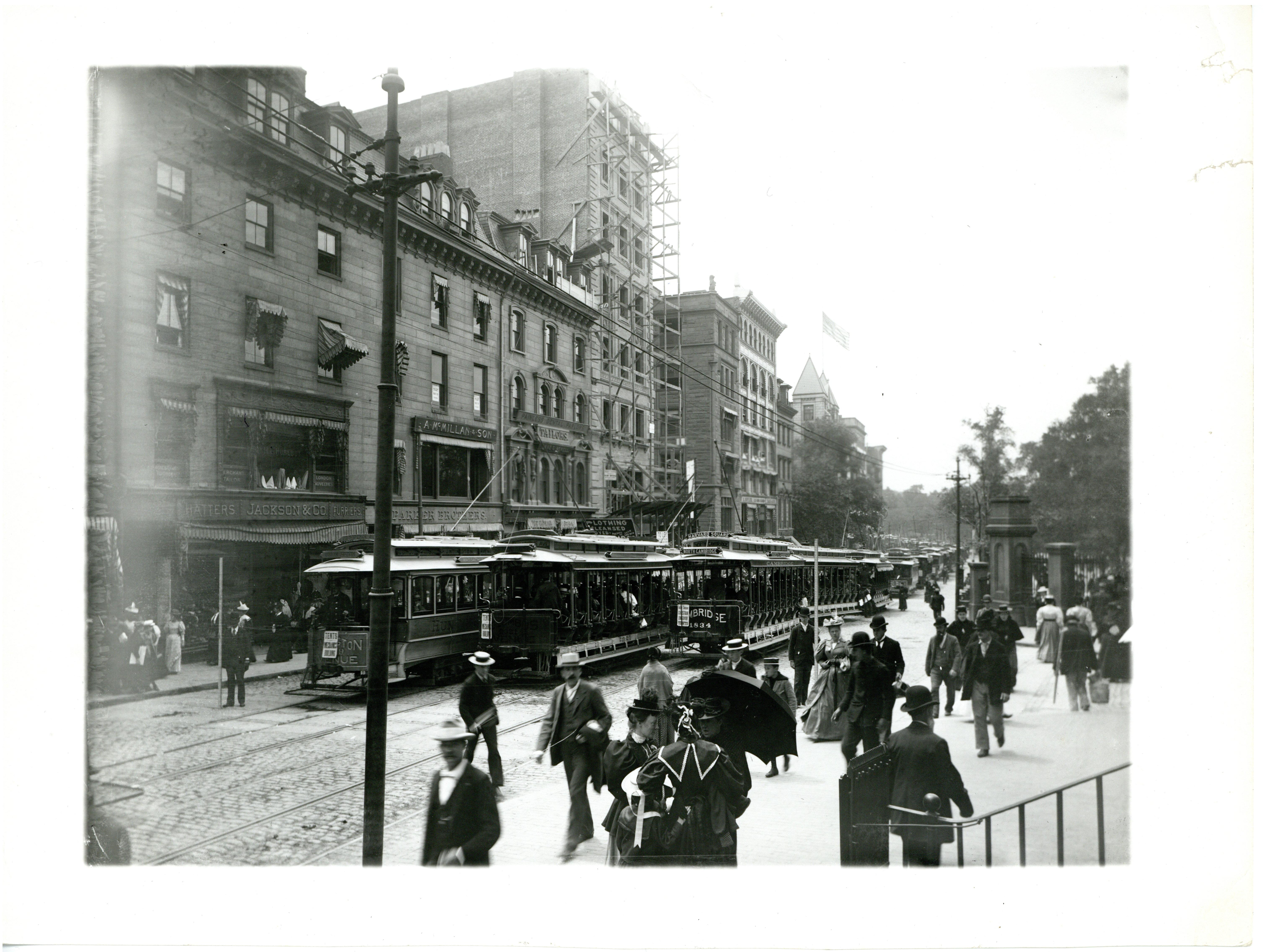 Title: Cars on Tremont Street Date: Circa 1895 Source: Transit Department photograph collection, 8300.002 File name: 8300002_004_016 Rights: Public Domain Citation: Transit Department photographs, Collection 8300.002, City of Boston Archives, Boston